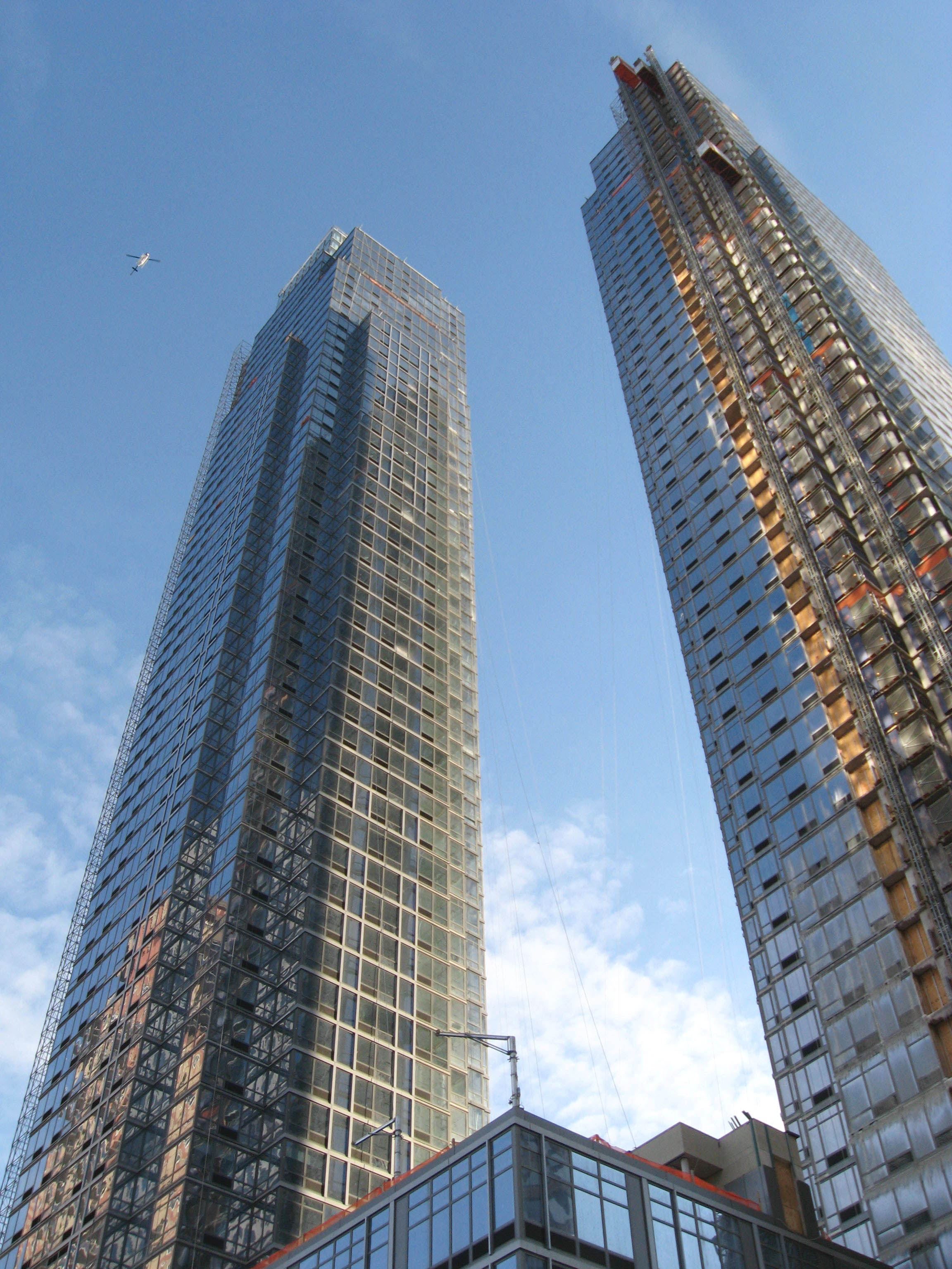 Looking southeast and up at Silver Towers from W42nd Street on a sunny afternoon.